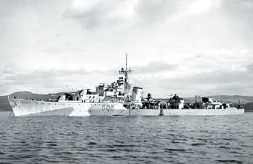 The Norwegian destroyer KNM Svenner (G03) at Scapa Flow.